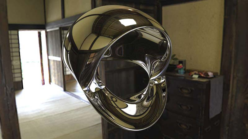 3D animation. audio by migso.